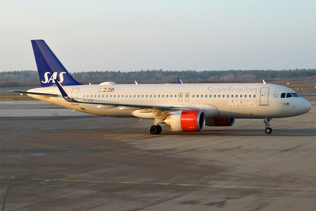 SAS, SE-RON, Airbus A320-251N